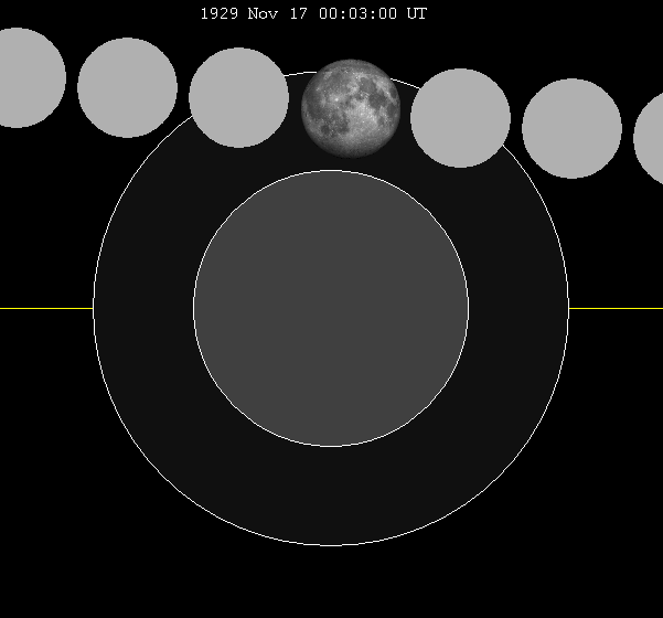 =lunar eclipse chart of moon's path through the earth's shadow. thumb